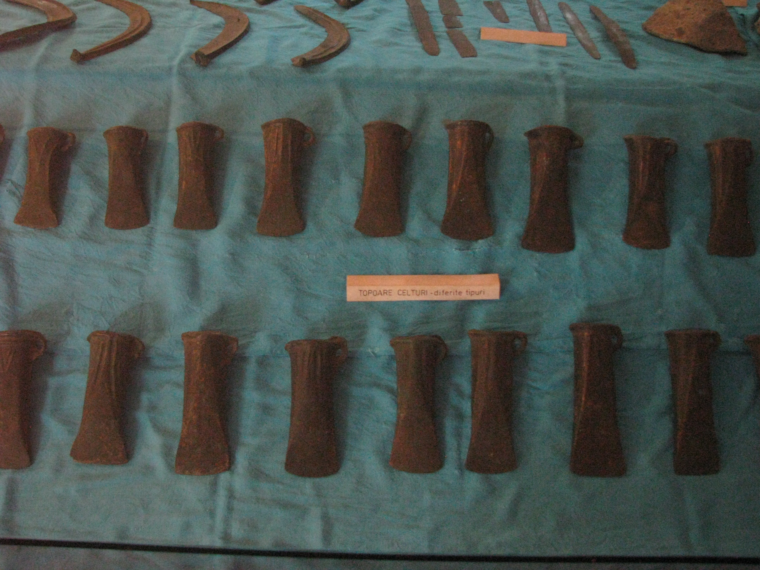 Aiud History Museum 2011